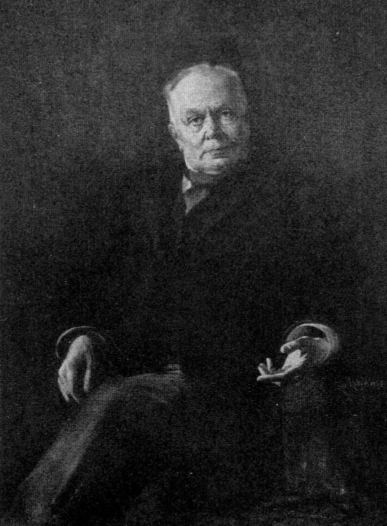 Kuno Fischer, German philosopher. B/W reproduction of a painting by Caspar Ritter